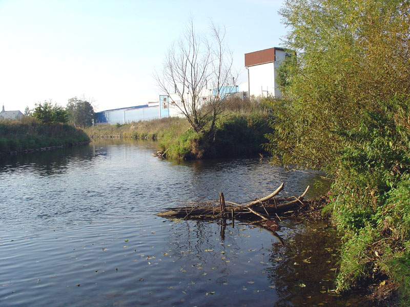 Confluence of the Úpa (right) and the Elbe in Jaroměř, Náchod District, Czech Republic, October 2005